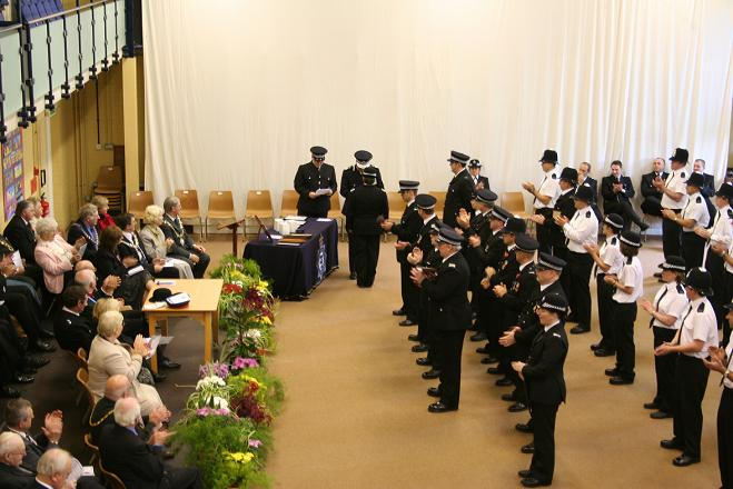 self taken image of special anniversary at Avon and Somsert force celebrations.